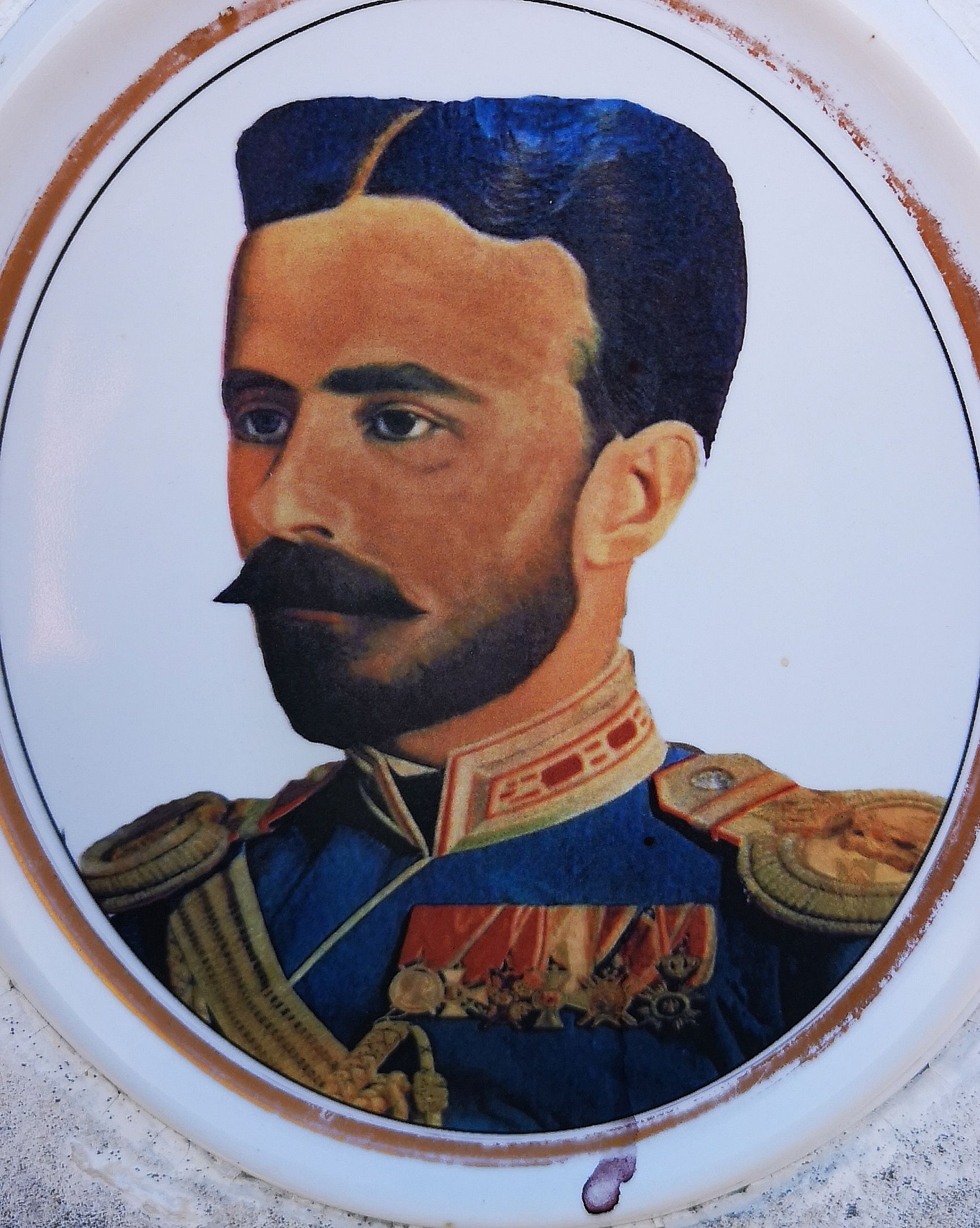 Image of Captain Marin Marinov, a Bulgarian officer who died in the Battle of Slivnitsa, part of the Serbian-Bulgarian War of 1885